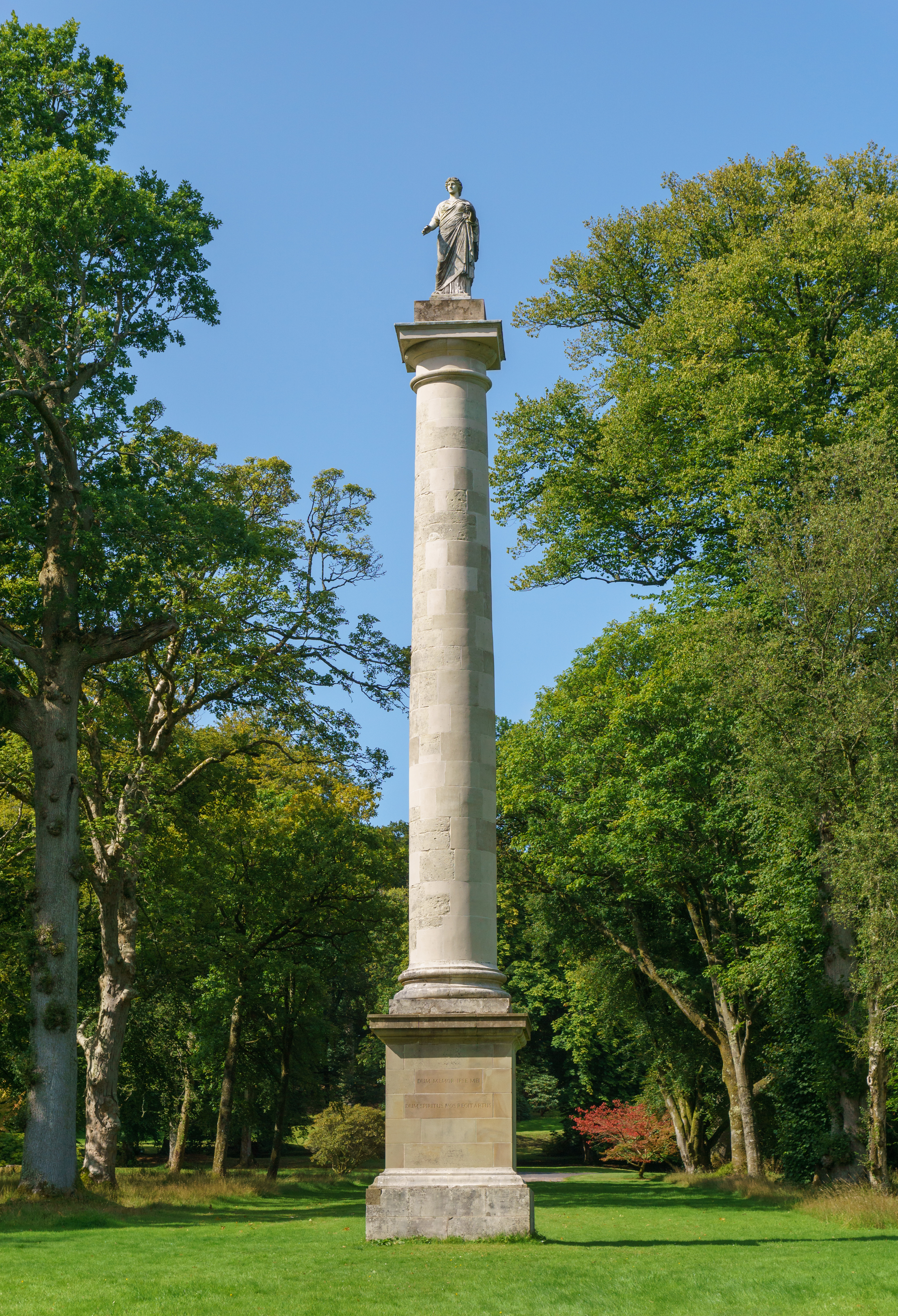 Statue on sandstone column in the gardens of Mount Stuart House. The inscription says "DUM MEMOR IPSE MEI DUM SPIRITUS HOS REGIT ARTUS" which means "You will remain in my memory so long as I am conscious and my spirit controls my limbs" (taken from Aeneid, Book iv, line 335). Wikidata has entry Q17771315 with data related to this item.